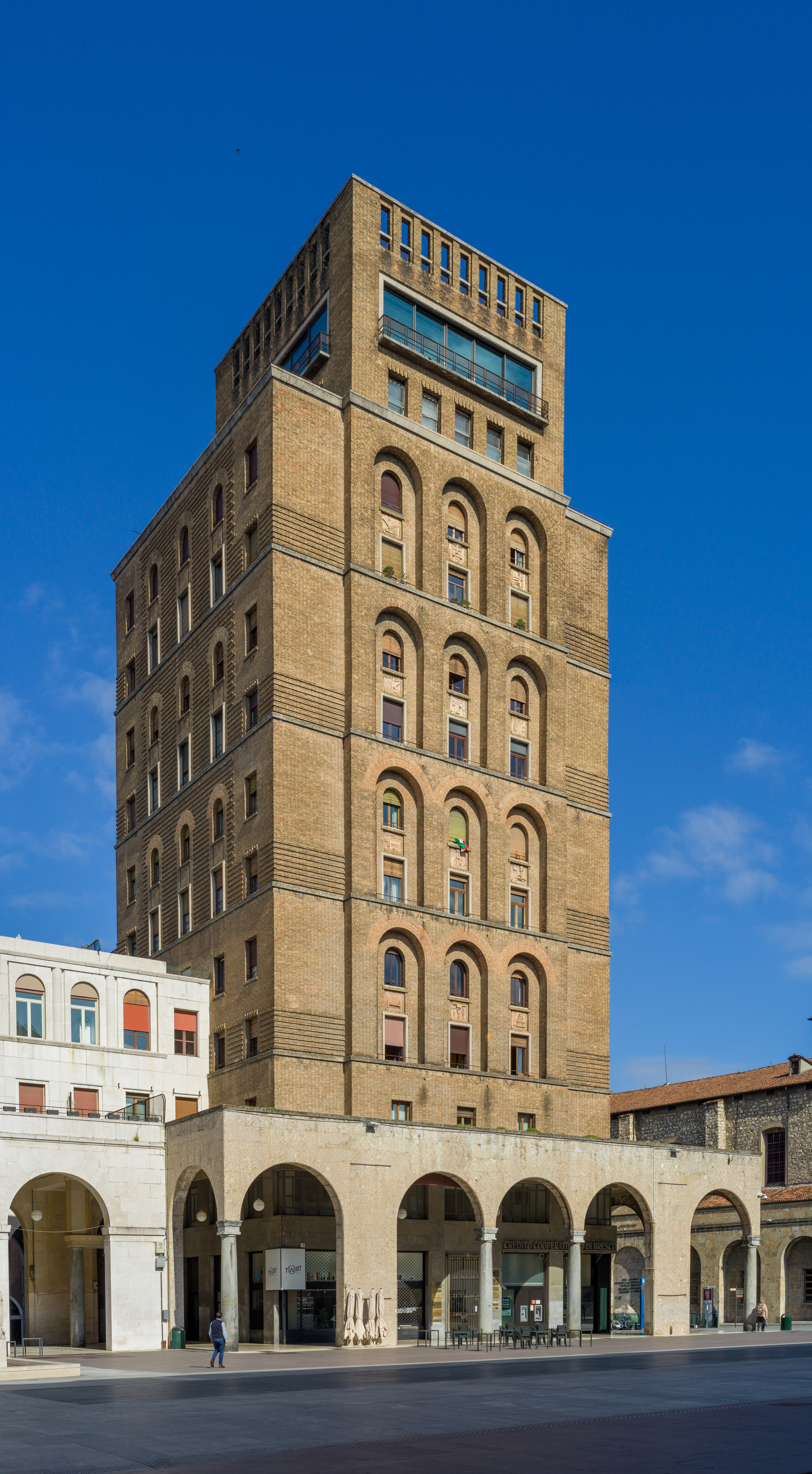 Tower on Piazza della Vittoria square in Brescia.